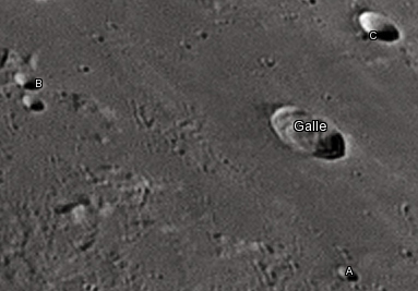 Galle lunar crater as seen from Earth with satellite craters labeled